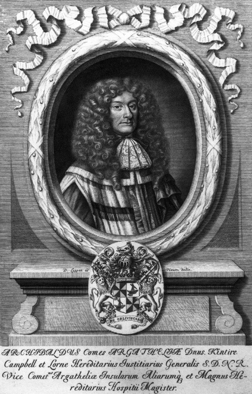 by David Loggan, line engraving, circa 1680, described as "from life" ('vivum scul.')